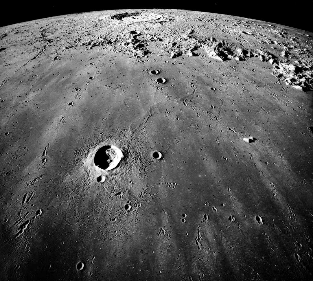 Original description: Southward looking oblique view of Mare Imbrium and Copernicus crater on the Moon. Copernicus crater is seen almost edge-on near the horizon at the center. The crater is 107 km in diameter and is centered at 9.7 N, 20.1 W. In the foreground is Mare Imbrium, peppered with secondary crater chains and elongated craters due to the Copernicus impact. The large crater near the center of the image is the 20 km diameter Pytheas, at 20.5 N, 20.6 W. At the upper edge of the Mare Imbrium are the Montes Carpatus. The distance from the lower edge of the frame to the center of Copernicus is about 400 km. This picture was taken by the metric camera on Apollo 17. (Apollo 17, AS-2444). Location & Time Information Date/Time (UT): 1972-12 Distance/Range (km): 160. Central Latitude/Longitude (deg): +20.,338. E Orbit(s): N/A Imaging Information Area or Feature Type: crater, mare, crater chains Instrument: Metric Mapping camera Instrument Resolution (pixels): Film Type - 3400 Instrument Field of View (deg): 76.2 mm Focal Length Filter: None Illumination Incidence Angle (deg): 77. Phase Angle (deg): N/A Instrument Look Direction: N/A Surface Emission Angle (deg): 40. Ordering Information CD-ROM Volume: N/A NASA Image ID number: AS17-2444 Other Image ID number: N/A NSSDC Data Set ID (Photo): 72-096A-03A NSSDC Data Set ID (CD): N/A Other ID: N/A